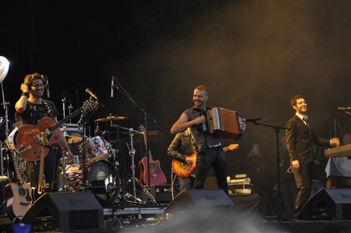 SADL live